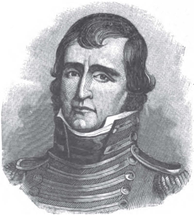 U.S. soldier Joseph Hamilton Daveiss